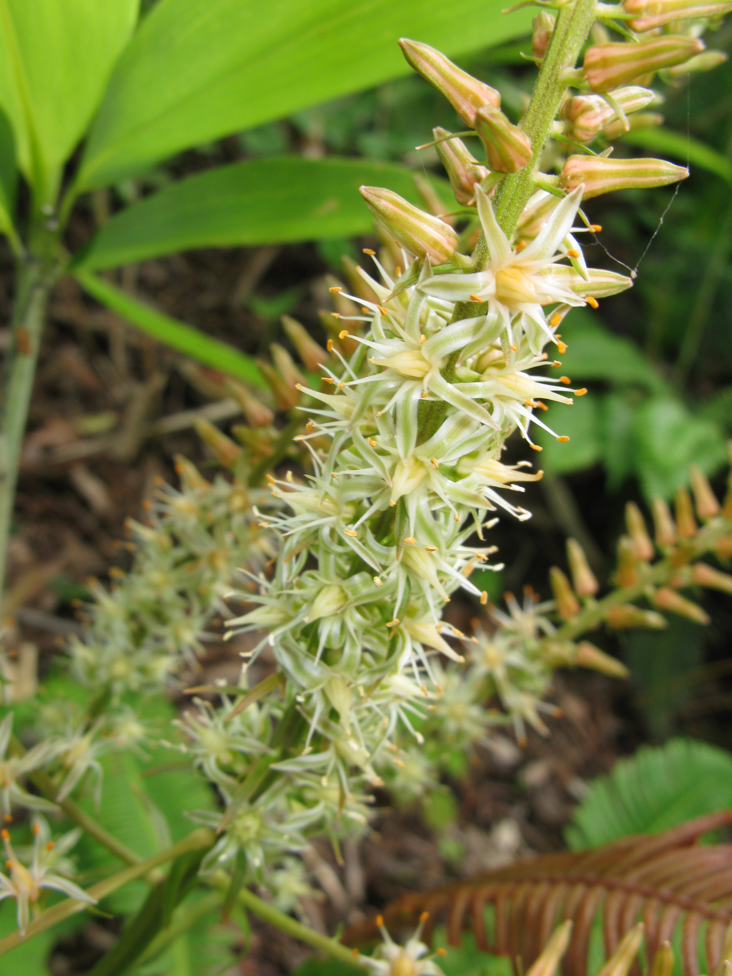 Aletris luteoviridis, Aizu area, Fukushima pref., Japan